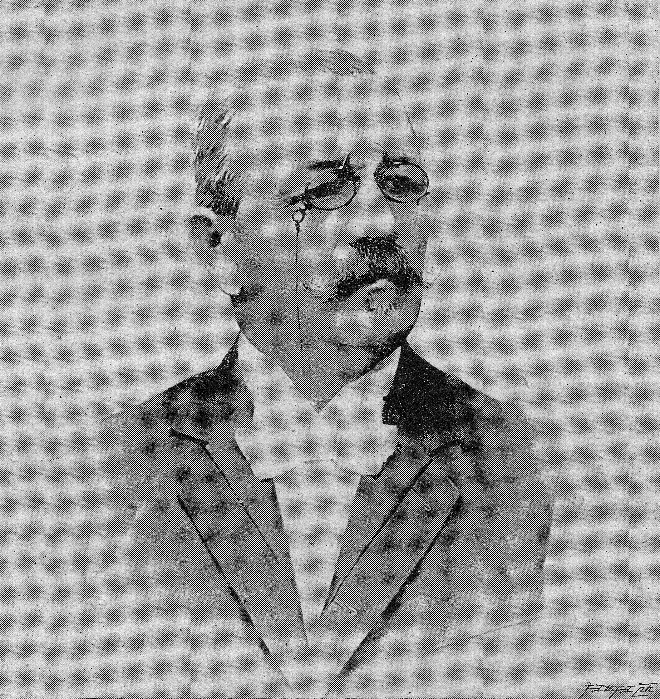 A photograph of Jevta Pavlović (1836-1896), a Serbian merchant from Belgrade and a benefactor.Taken from the 1898 edition of the calendar Orao. Srpski (latinica): Fotografija Jevte Pavlovića (1836-1896), srpskog trgovca iz Beograda i dobrotvora. Preuzeto iz izdanja kalendara Orao za 1898. godinu.